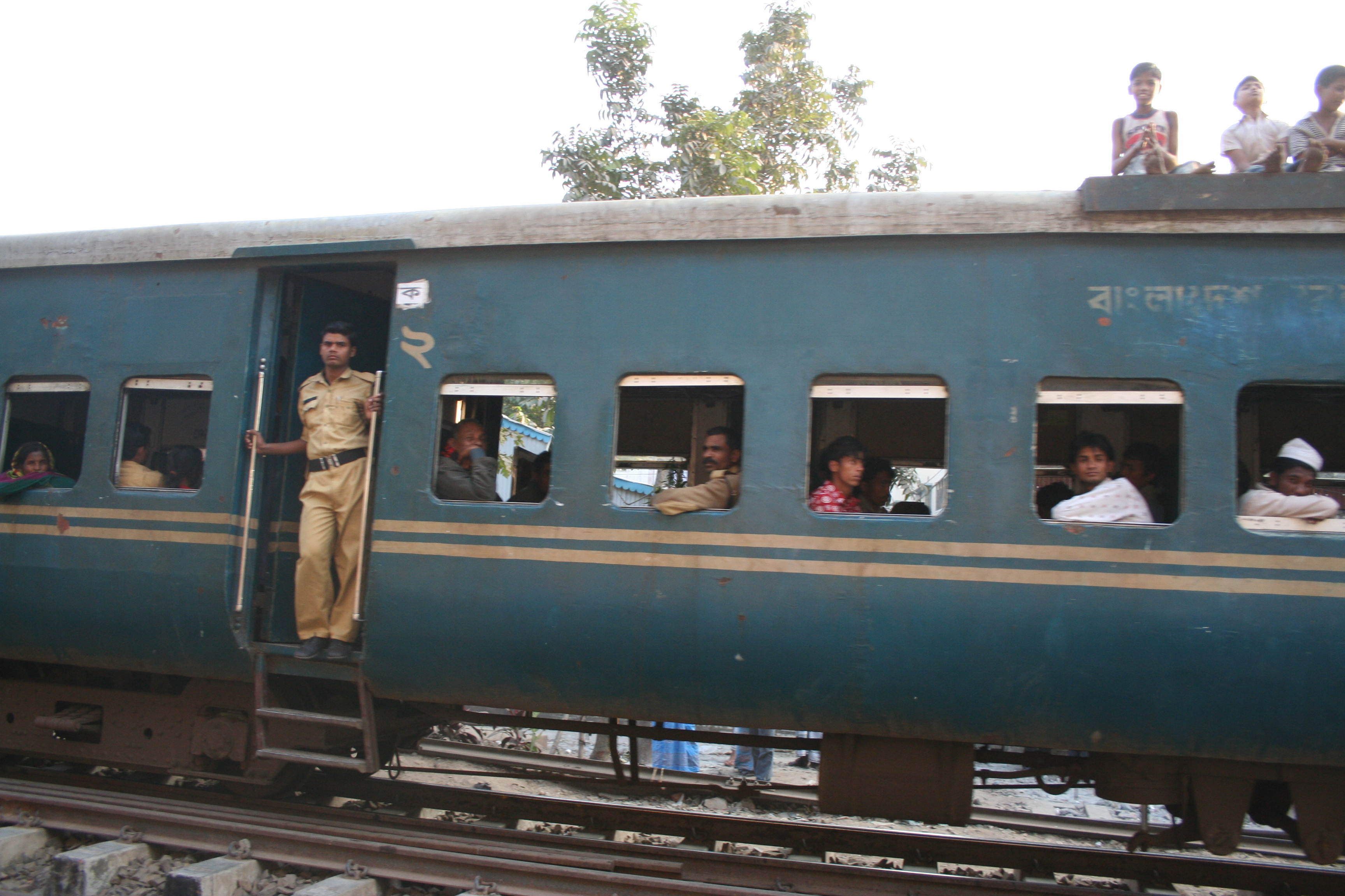 Trains operated by Bangladesh Railway, Bangladesh.Bangladesh 12-27-07 - 01-16-08 086